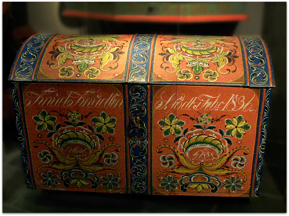 Hallingrosa is the name of a permanent exhibition which displays world-class floral painting - "rosemåling" - with emphasis on the development of the Hallingdal tradition - "hallingrosa". In Hallingdal there have been several great floral painters during the later centuries. This exhibition contains, among others, works of Herbrand Sata and his sons Nils Bæra and Embrik Bæra, all of them from Ål. The art history of floral painting from the end of the 18th Century is the basis of the exhibition. Website